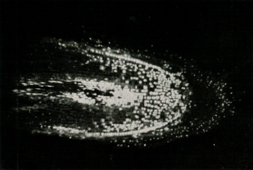 Root tip from Allium cepa, photography from said Book. 10 min exposure time.